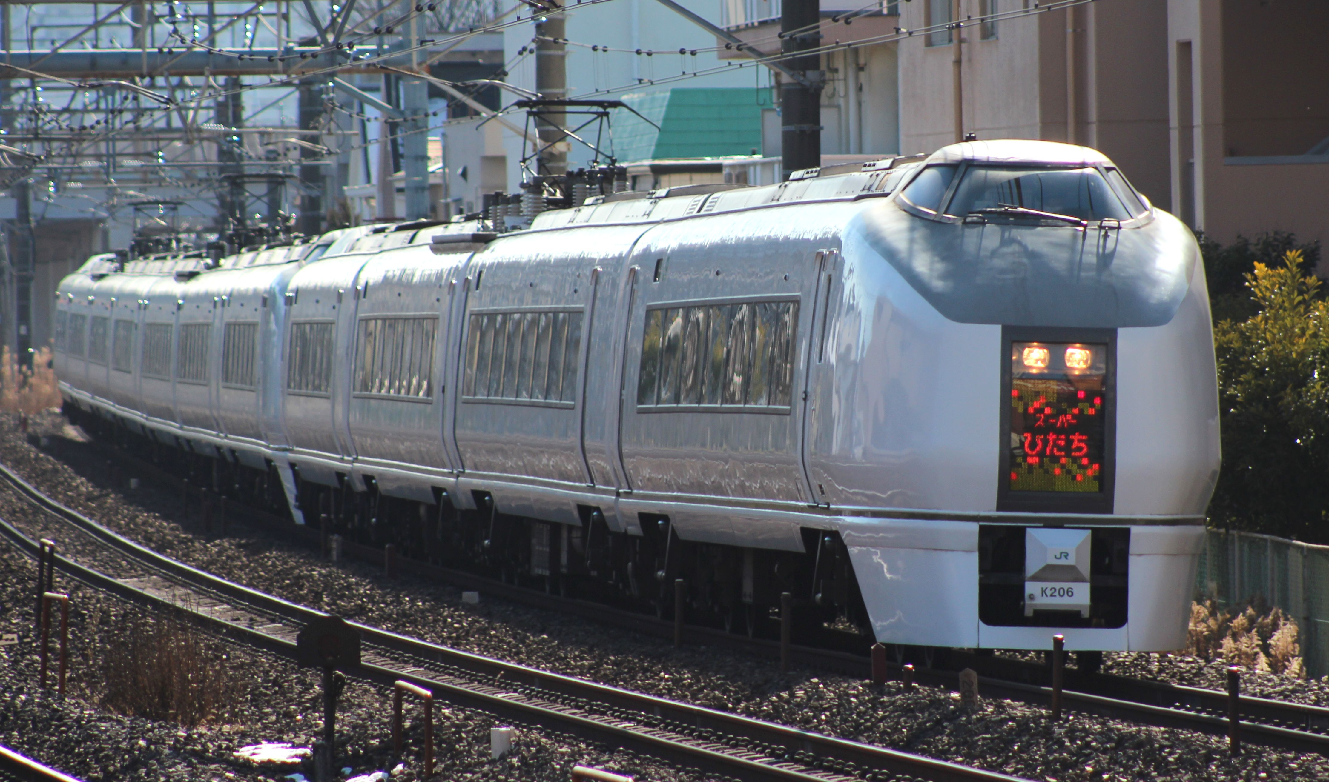 JR East 651 series set K206 on a Super Hitachi limited express service